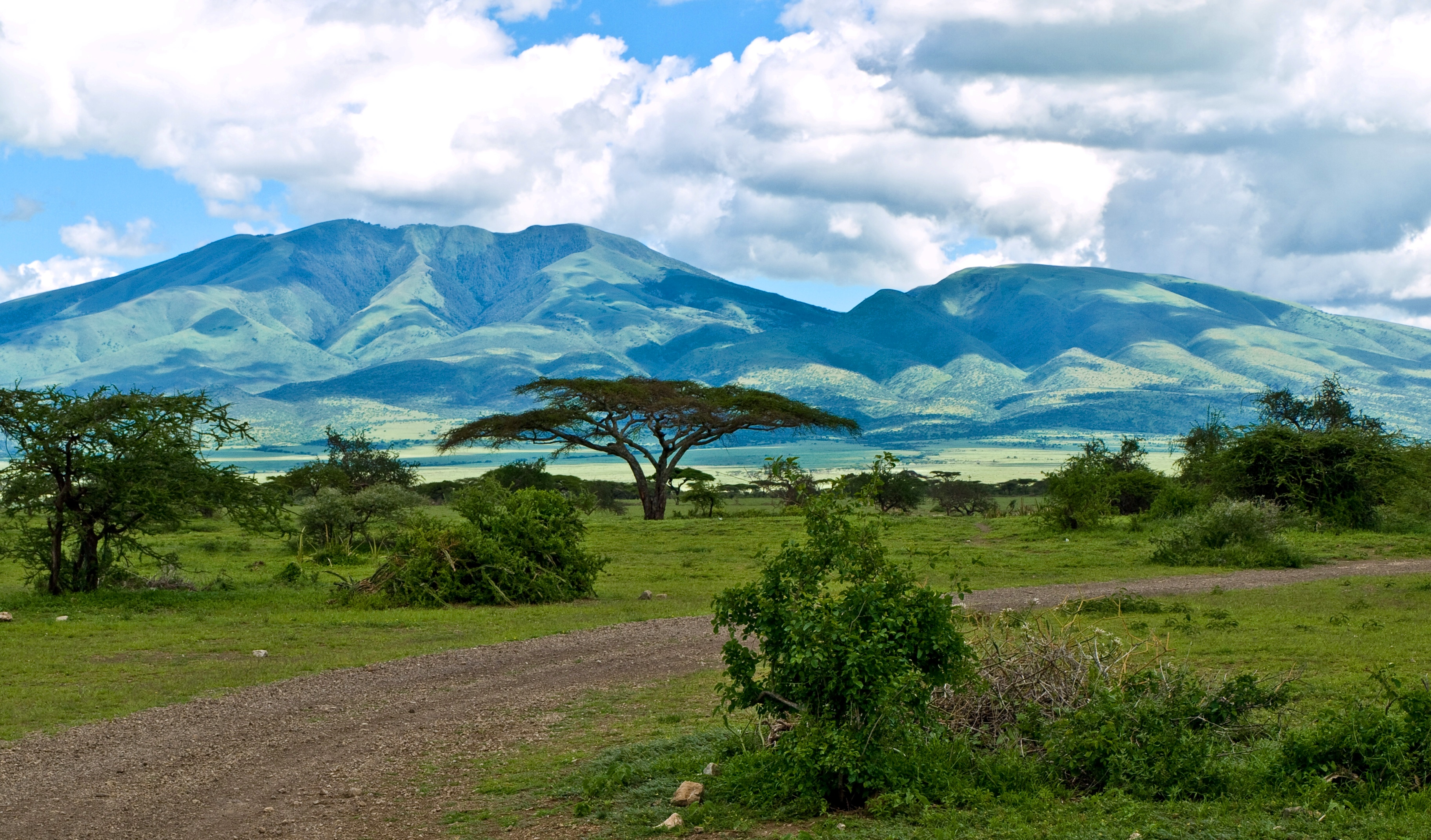 View of a winding dirt road and far off mountains from the Oldupai Museum site in Tanzania